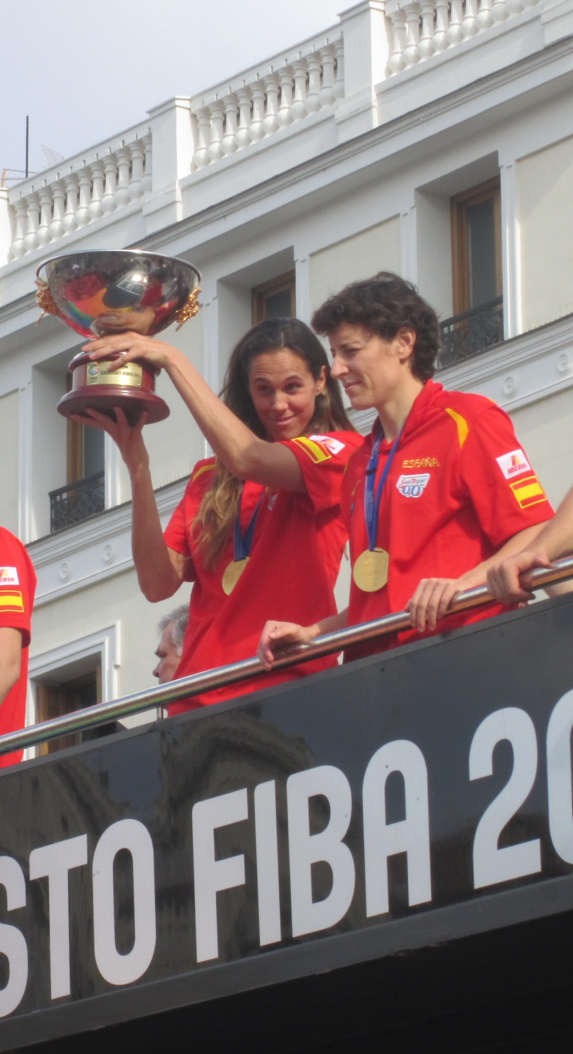 Amaya valdemoro